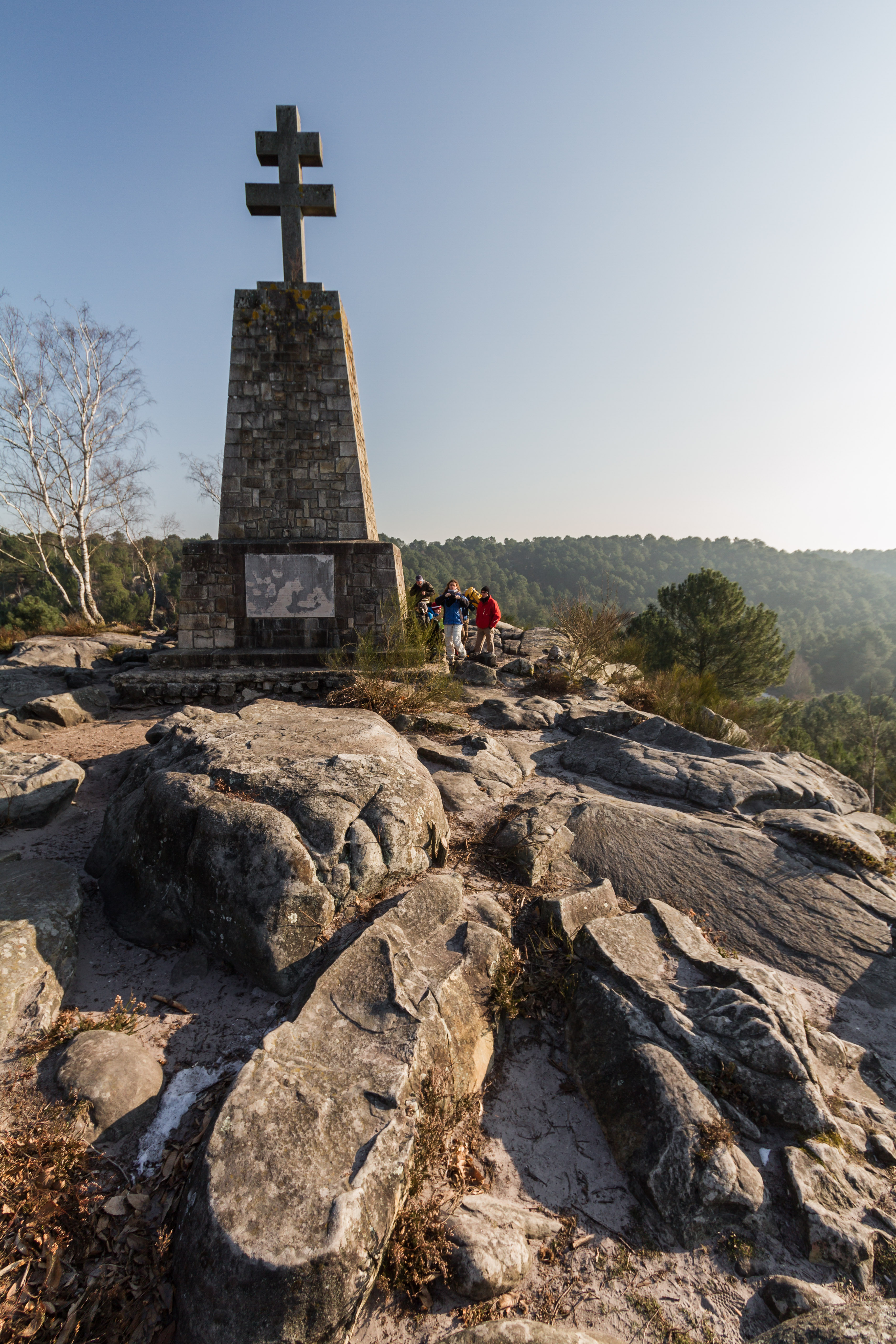 A cross of Lorraine, in tribute to the World War II resistance, in the forrest of the three pines (forêt des trois pignons)